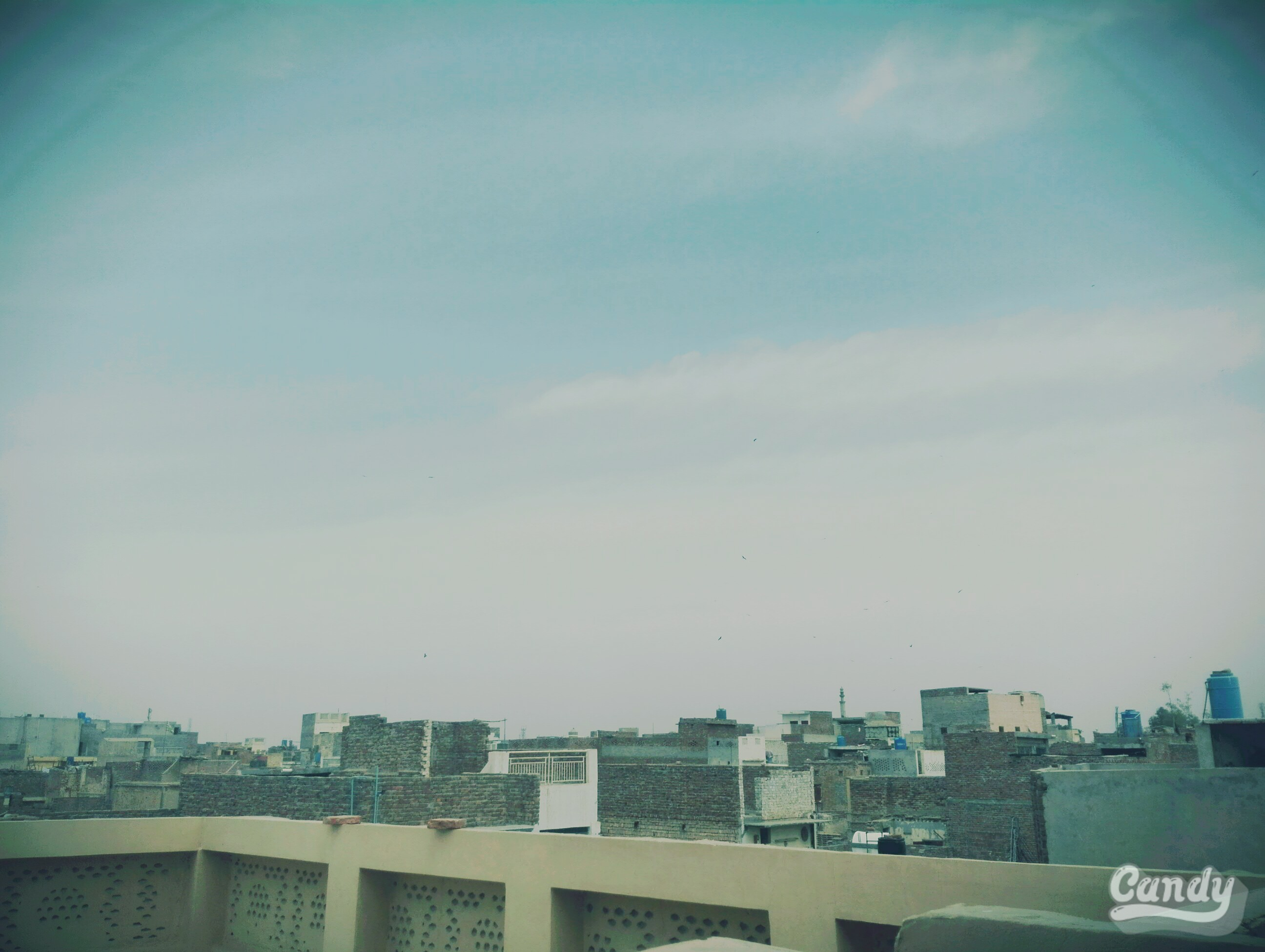 Bahawalpur